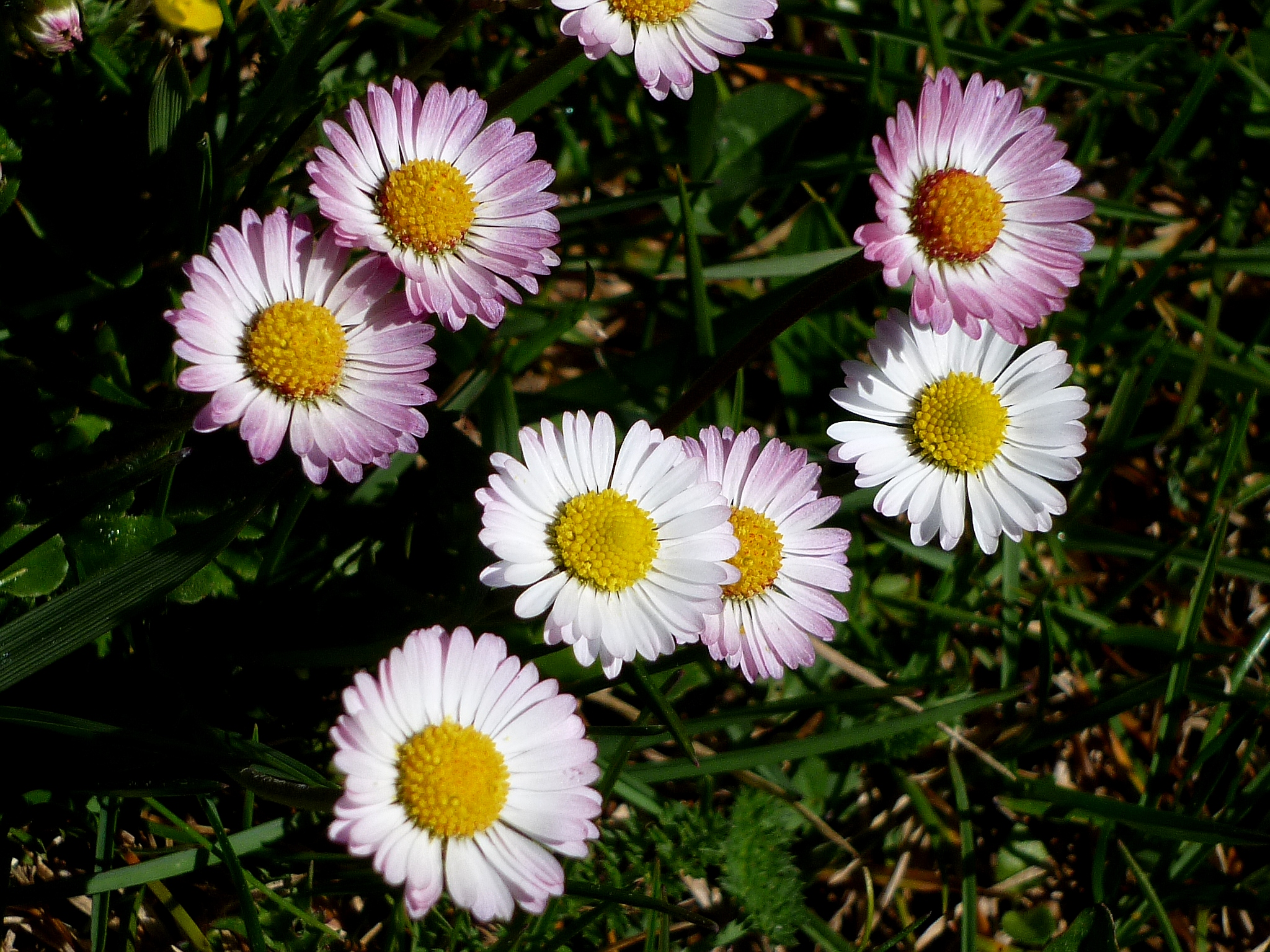 Bellis perennis. In Montcalb (Solsonès-Catalunya). To 1.560 m. altitude